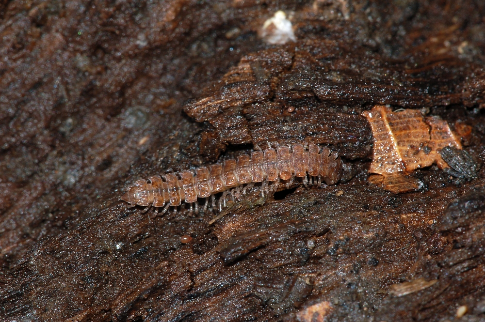 Polydesmus species, Schwanheim Dune, Frankfurt/Main, Germany